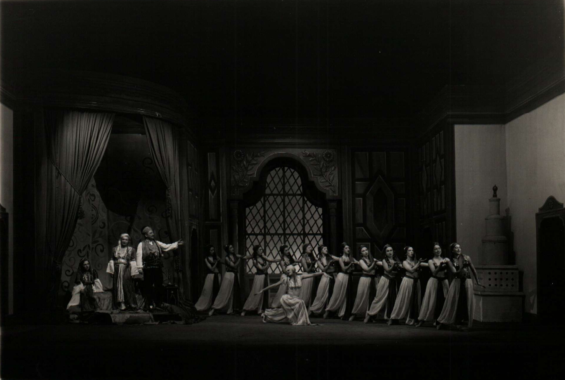 Actors of the opera "Tsveta" from Maestro Georgi Atanasov.